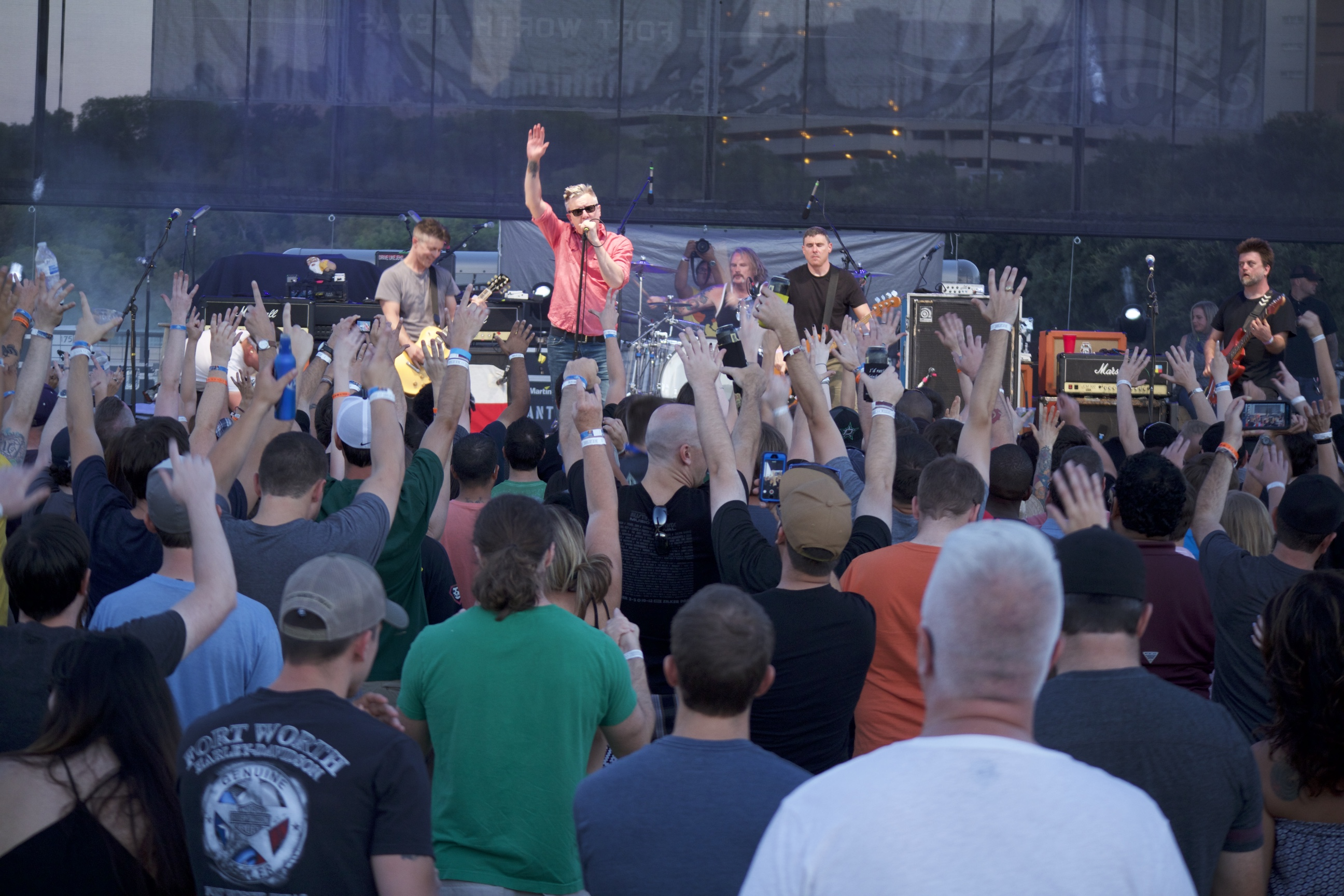 Burden Brothers performing in Fort Worth in September 2015.